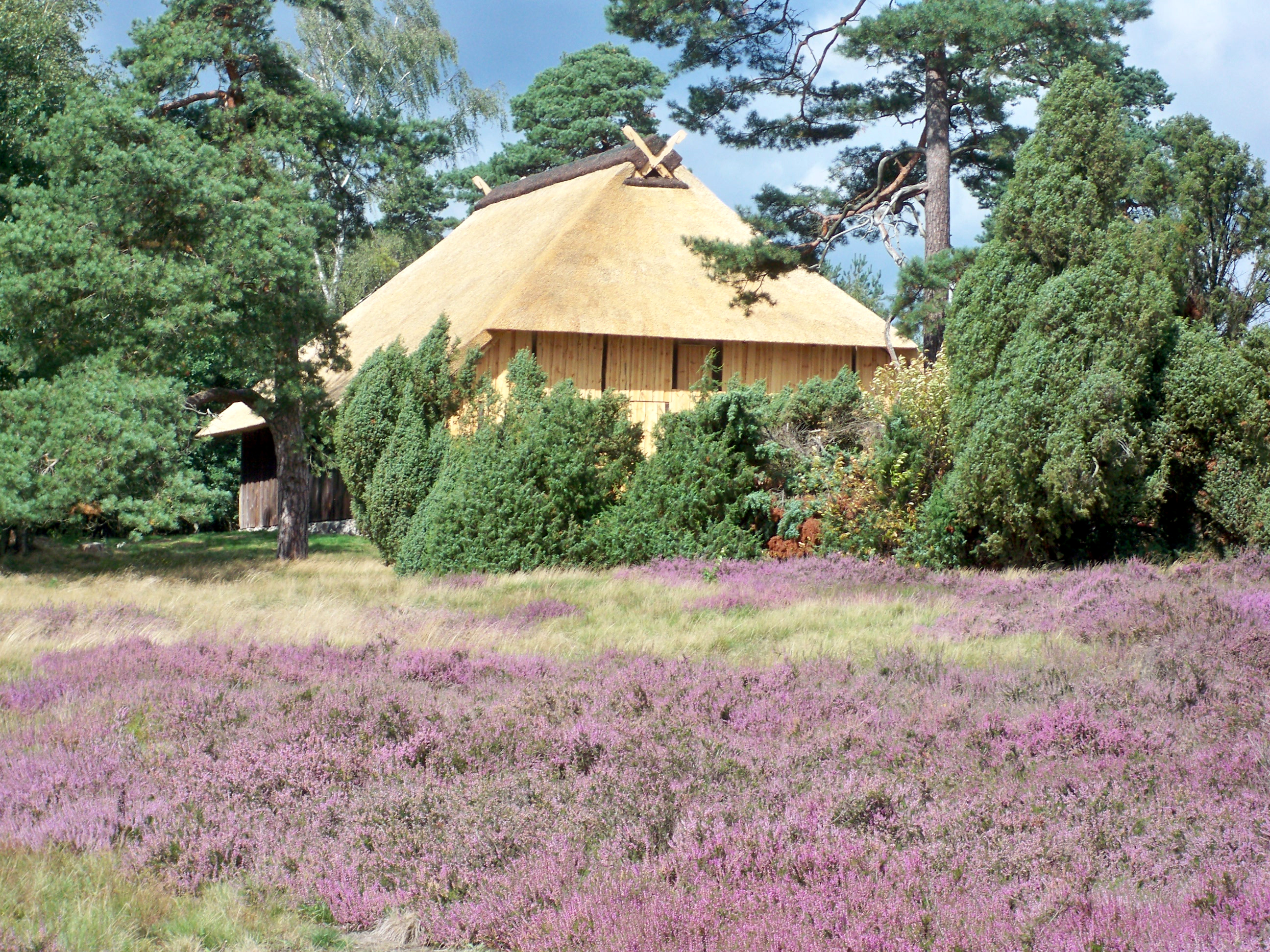 Heiliger Hain near Wahrenholz, Lower Saxony, Sheep stable